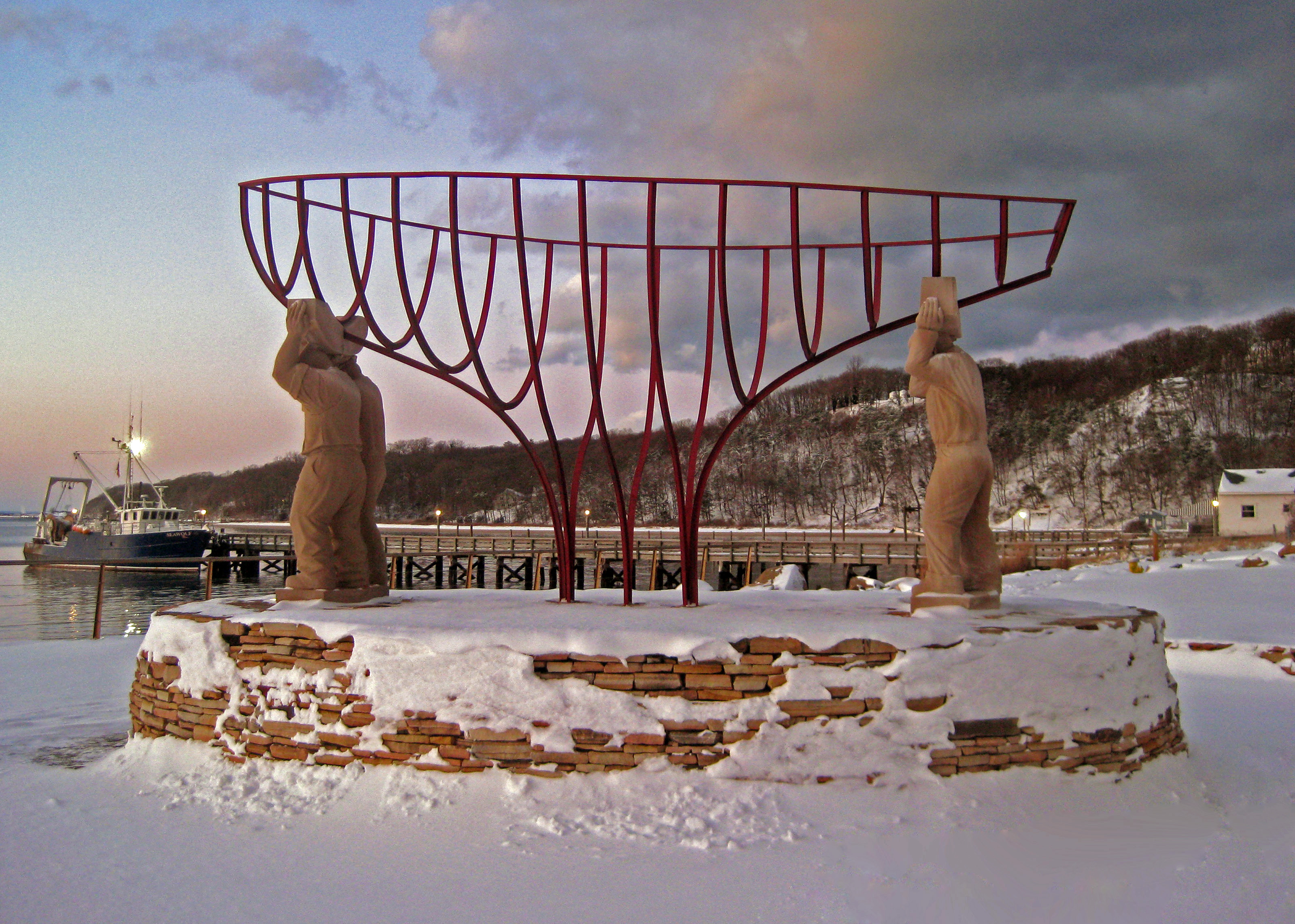 A sculpture in Port Jefferson, New York that commemorates the town's maritime history. This time in the Winter.